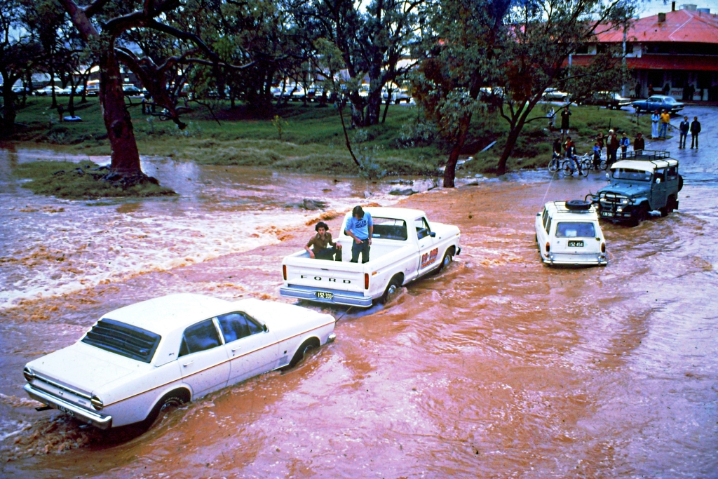 i took this photo during the floods in Alice springs in 1978